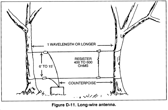 Drawing of a "long wire antenna", a directional radio antenna used for communication in the high frequency (shortwave) bands, from a U.S. Army field manual. This is actually a type of antenna called a Beverage antenna. It consists of a random length of horizontal wire from 1-2 wavelengths long, terminated at one end by a resistor equal to the characteristic impedance of the antenna, about 600 ohms, with the receiver connected to the other end. The resistor is attached to a second parallel wire below the first, which functions as a counterpoise, an artificial "ground". It is a nonresonant antenna, and so is broadband, sensitive to a wide band of radio frequencies. The main lobe, its direction of greatest sensitivity, is to the right, parallel to the wire, off the end that has the resistor.